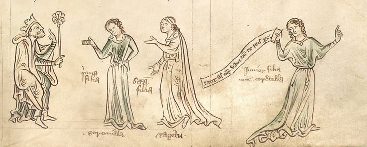 King Leir and Daughters. From the From Chronica Majora, vol. 1, Saint Albans, England, ca. 1240–53, Corpus Christi College Library, Cambridge, MS 26.